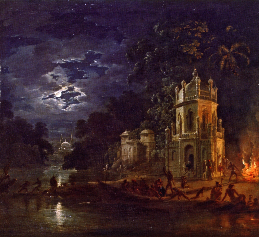 "Moonlight Scene (Nagaphon Ghat)" oil on canvas, by the German painter Johan Zoffany. 25.98 in. x 30 in. Private collection. Image courtesy of The Athenaeum.